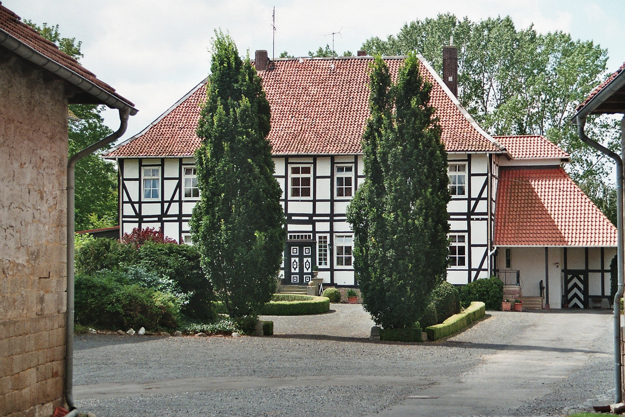 Imbsen (Niemetal), the manor house